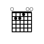 E major chord for guitar in open position. Beginners chord.